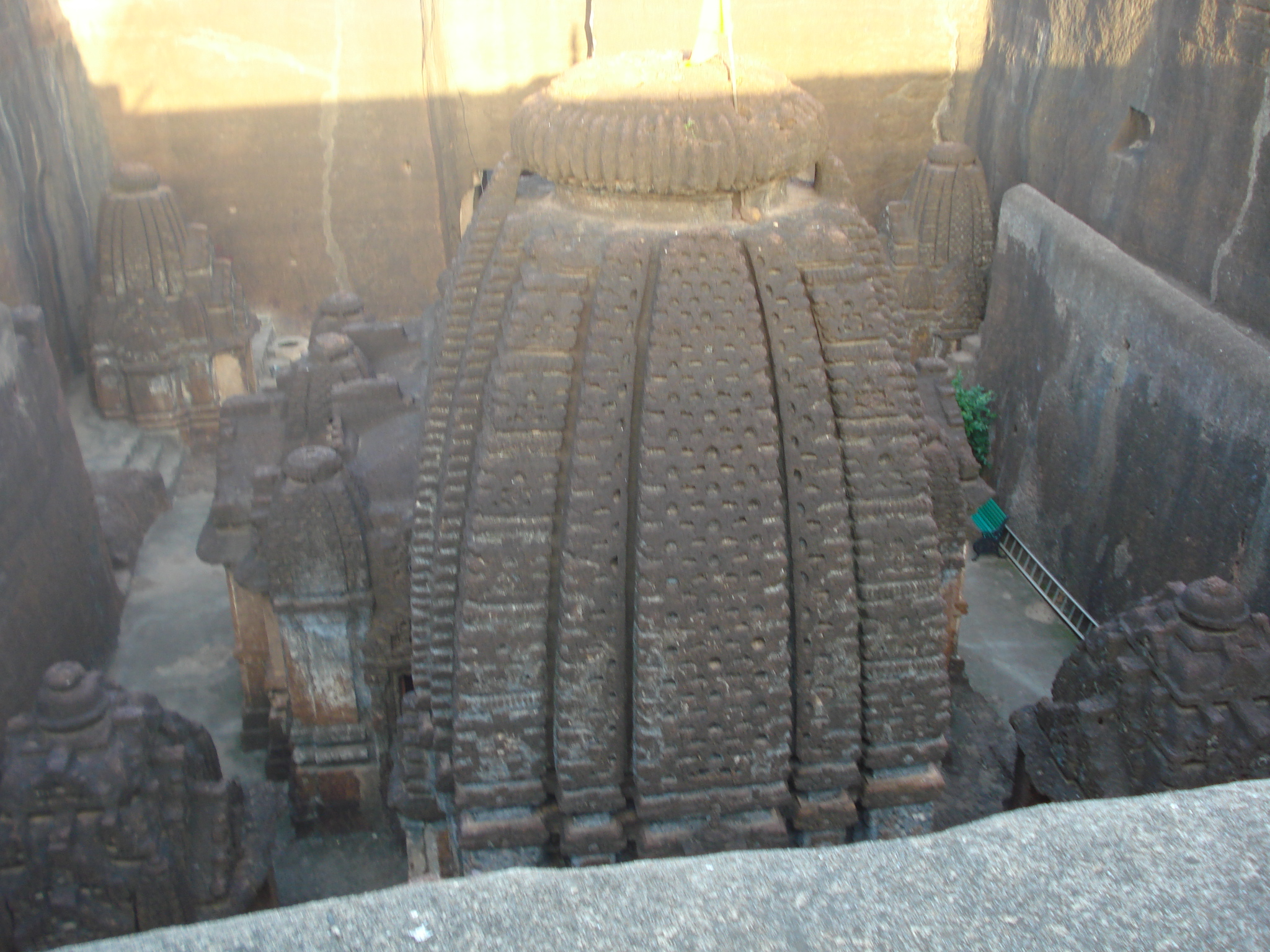 Dharmrajeshwar temple at Chandwasa in Mandsaur district in Madhya Pradesh, India.